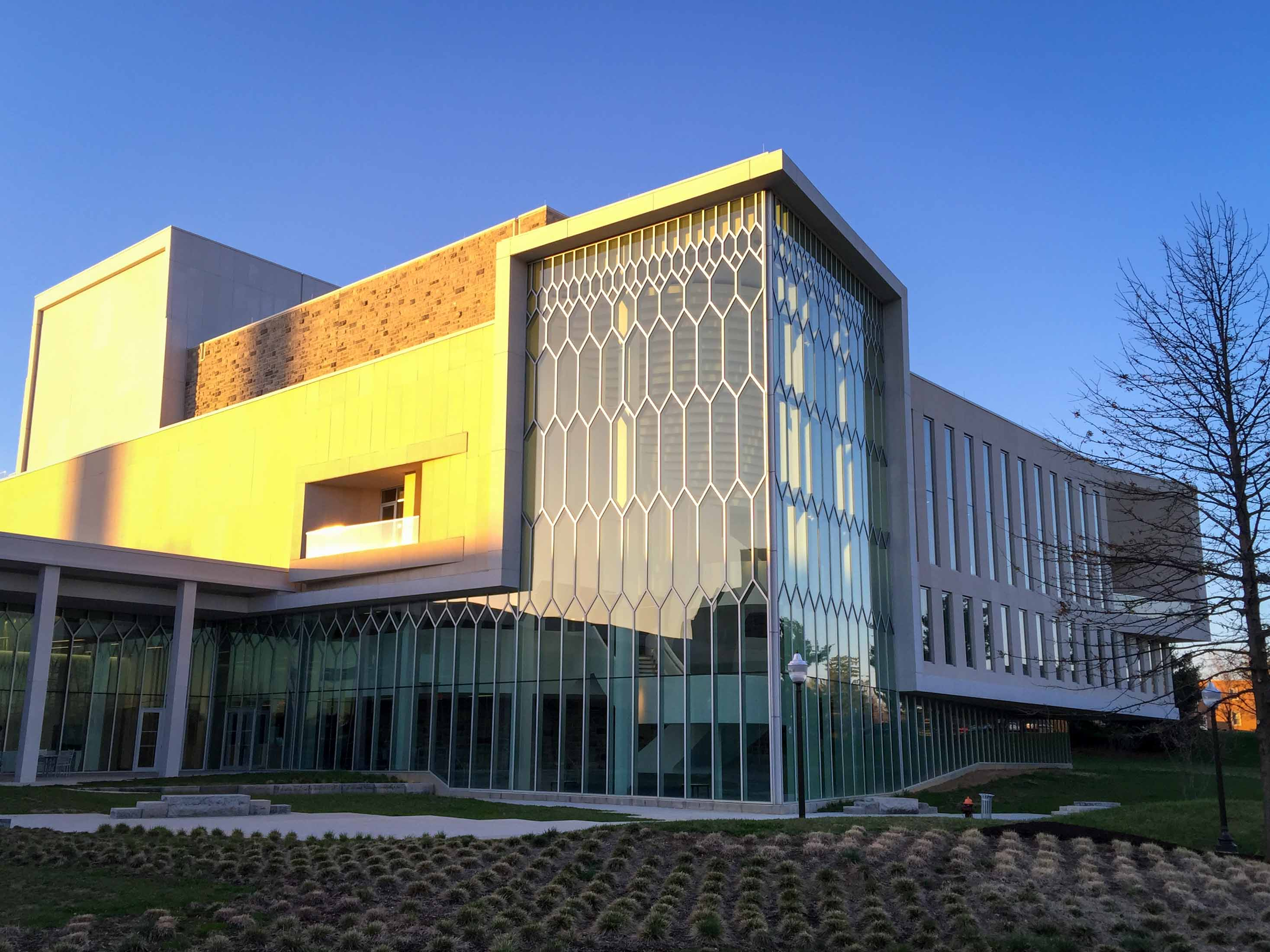 Moss Arts Center at Virginia Tech in Blacksburg, Virginia